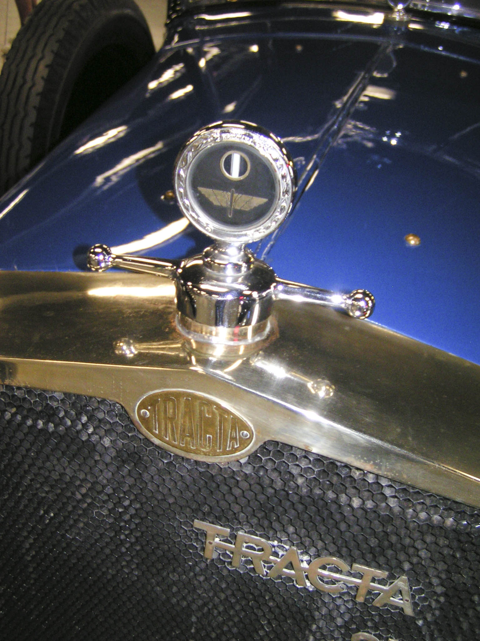 Continental 65hp 2.7L side valve six cylinder engine power with a front wheel drive three speed gearbox. This Tracta Type E was produced in France in 1930. The body is by Lemoine.